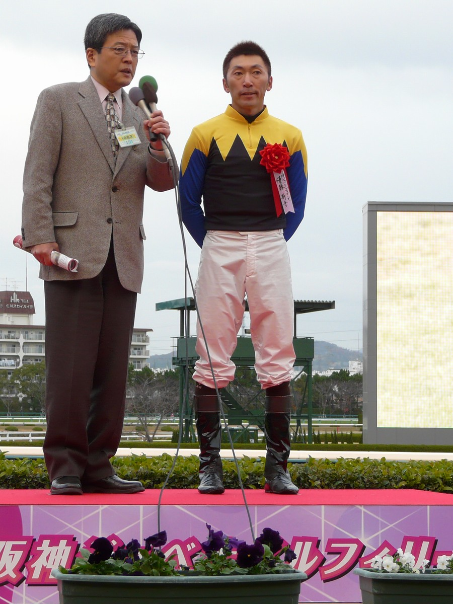 Masayoshi-Ebina